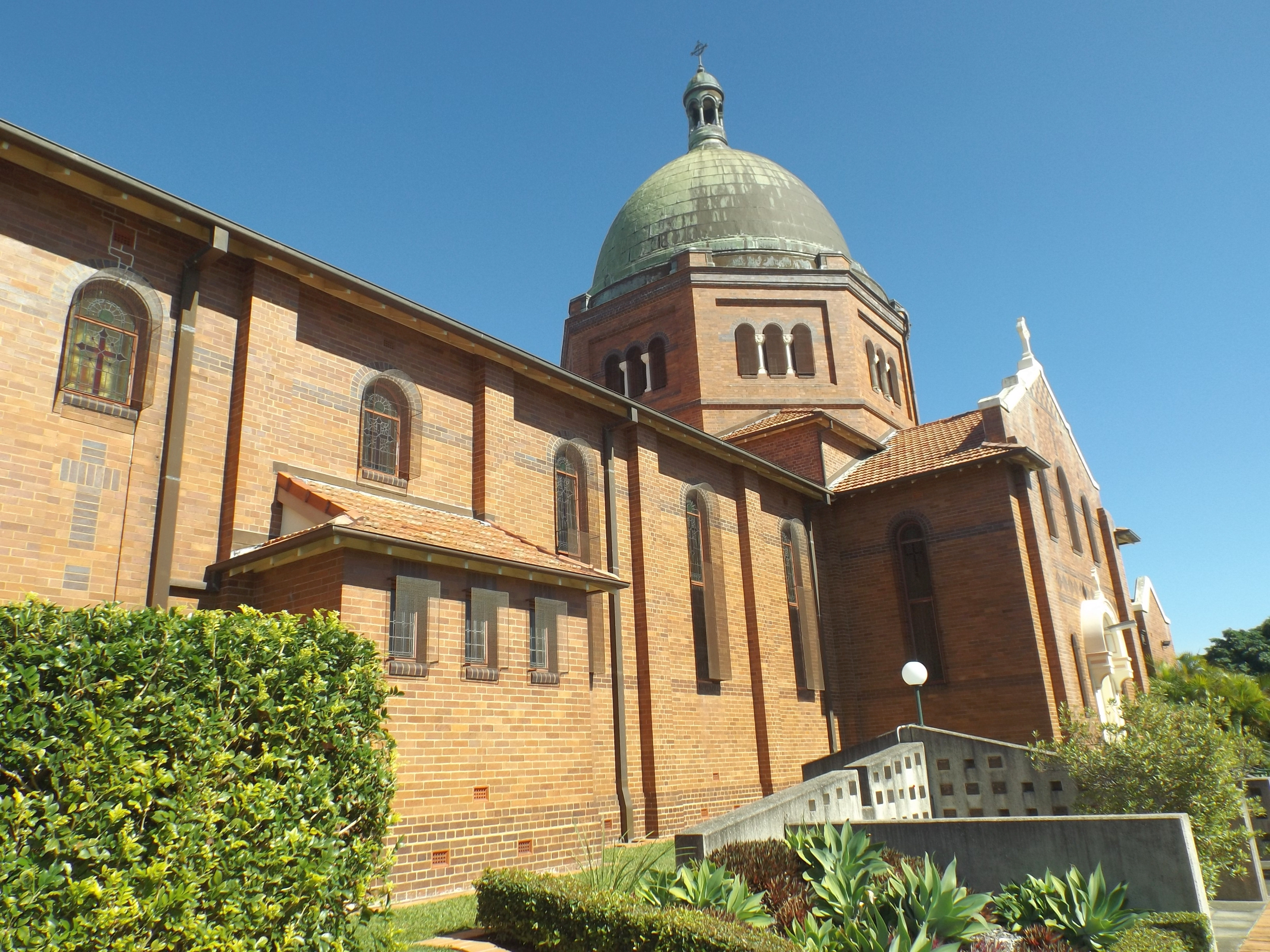 Photo of the side of the Corpus Christi Church at Nundah, Brisbane, Queensland, Australia.